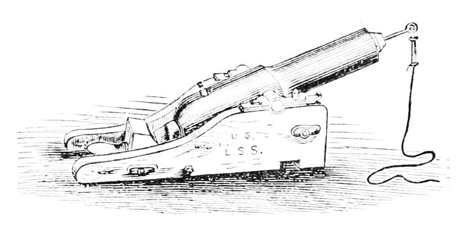 The lyle gun